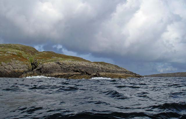 Fuidheigh - Rubha na Maighdein We were kayaking towards the gap between the two islands of Fuidheigh and Flodaigh.